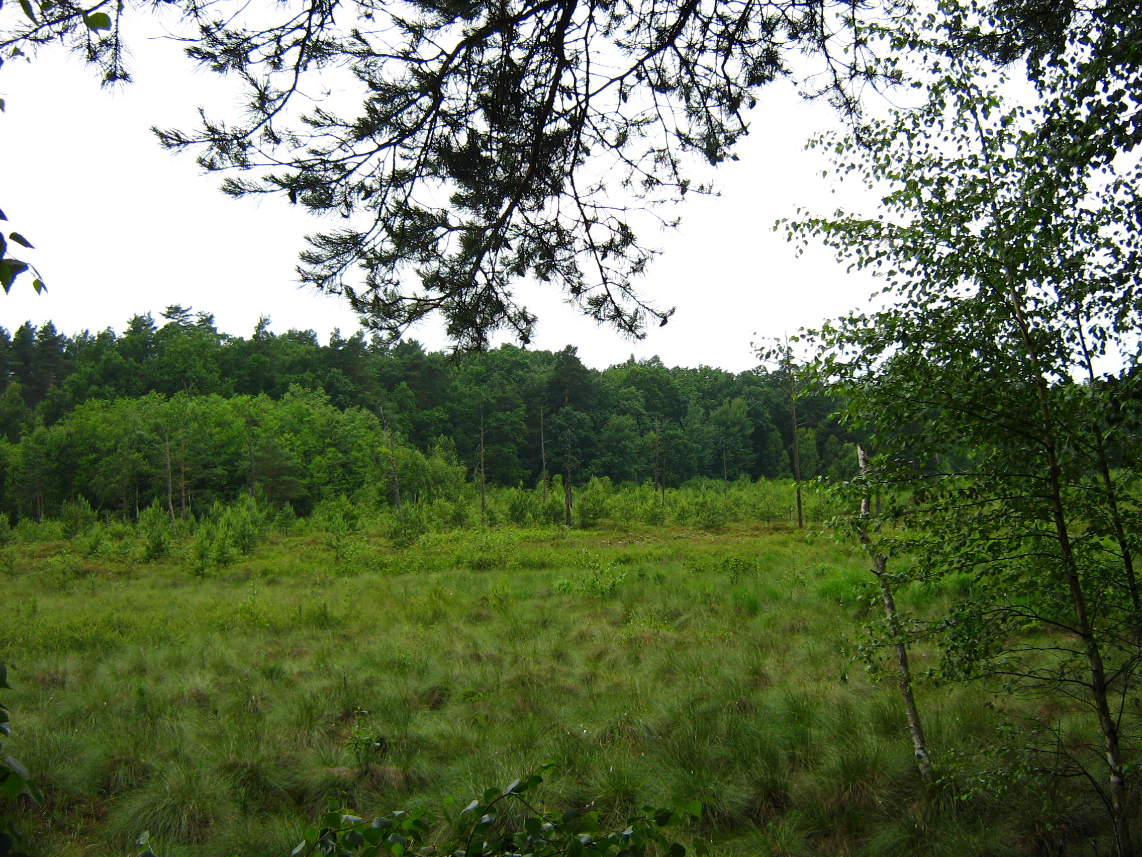 Dwarf birch reserve Linje (Poland).